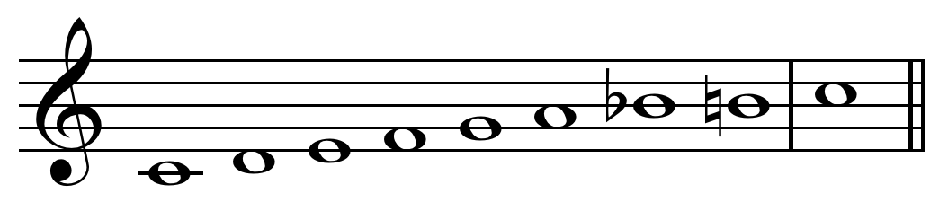 Bebop dominant scale in C. Created by Hyacinth (talk) using Sibelius 5.